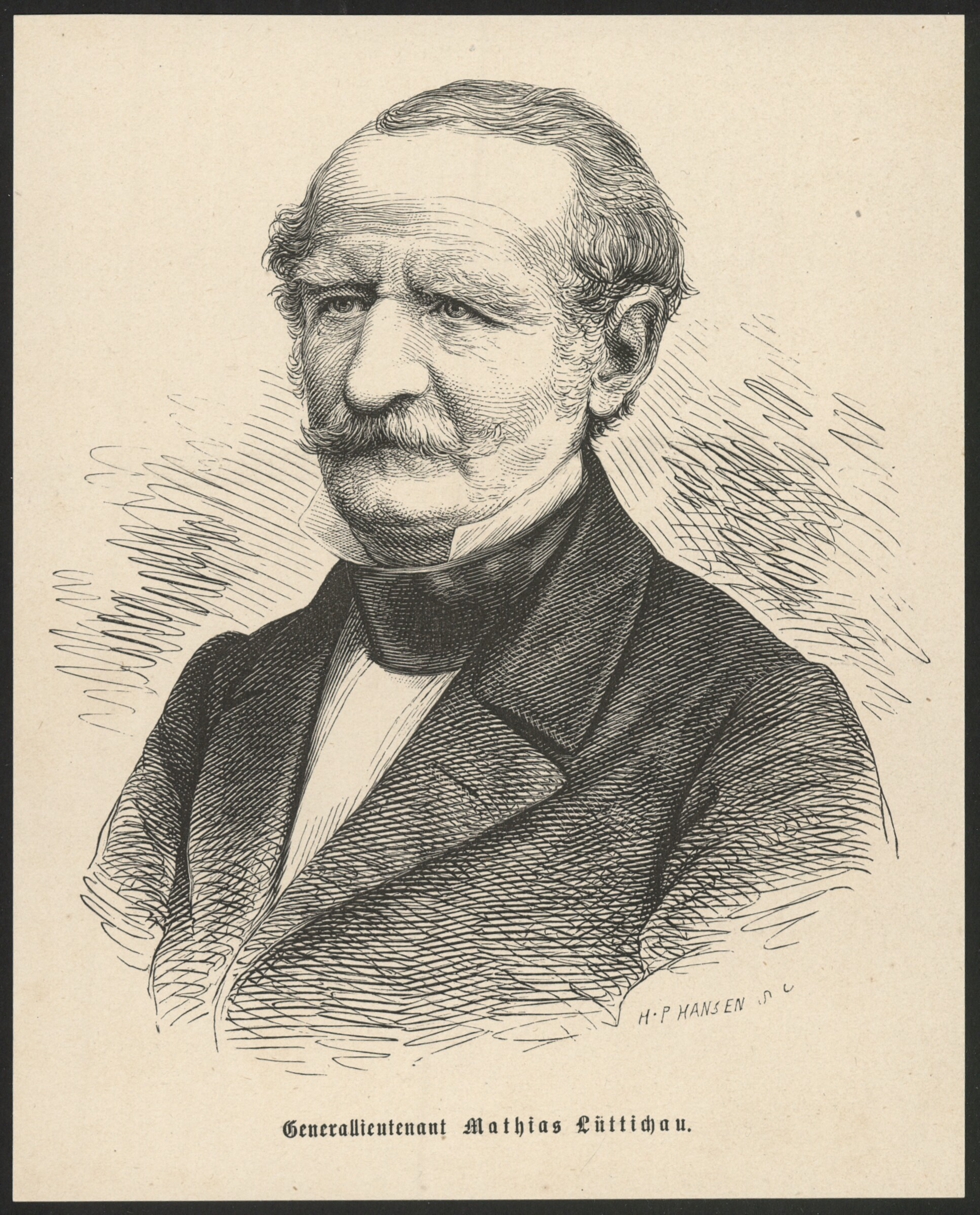 Danish estate owner, lieutenant general, Minister of War, MP Mathias von Lüttichau (1795-1870)